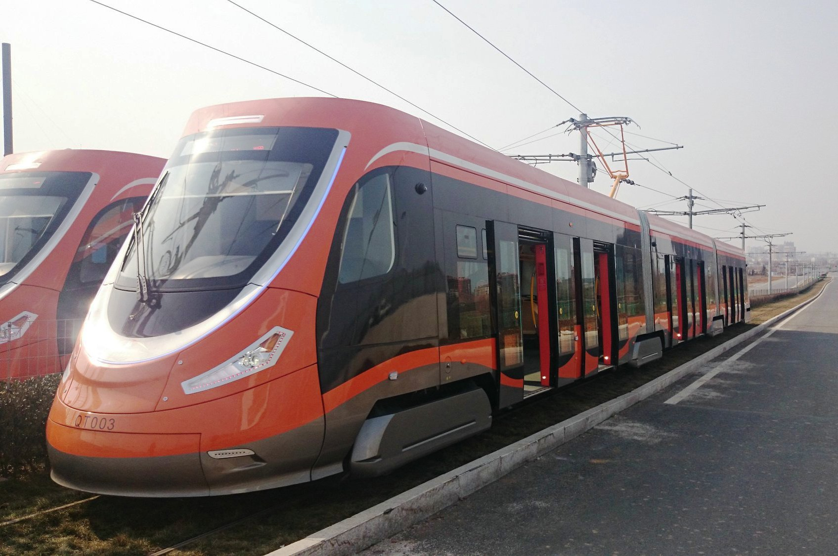 Qingdao Tram, Line Chengyang QT003